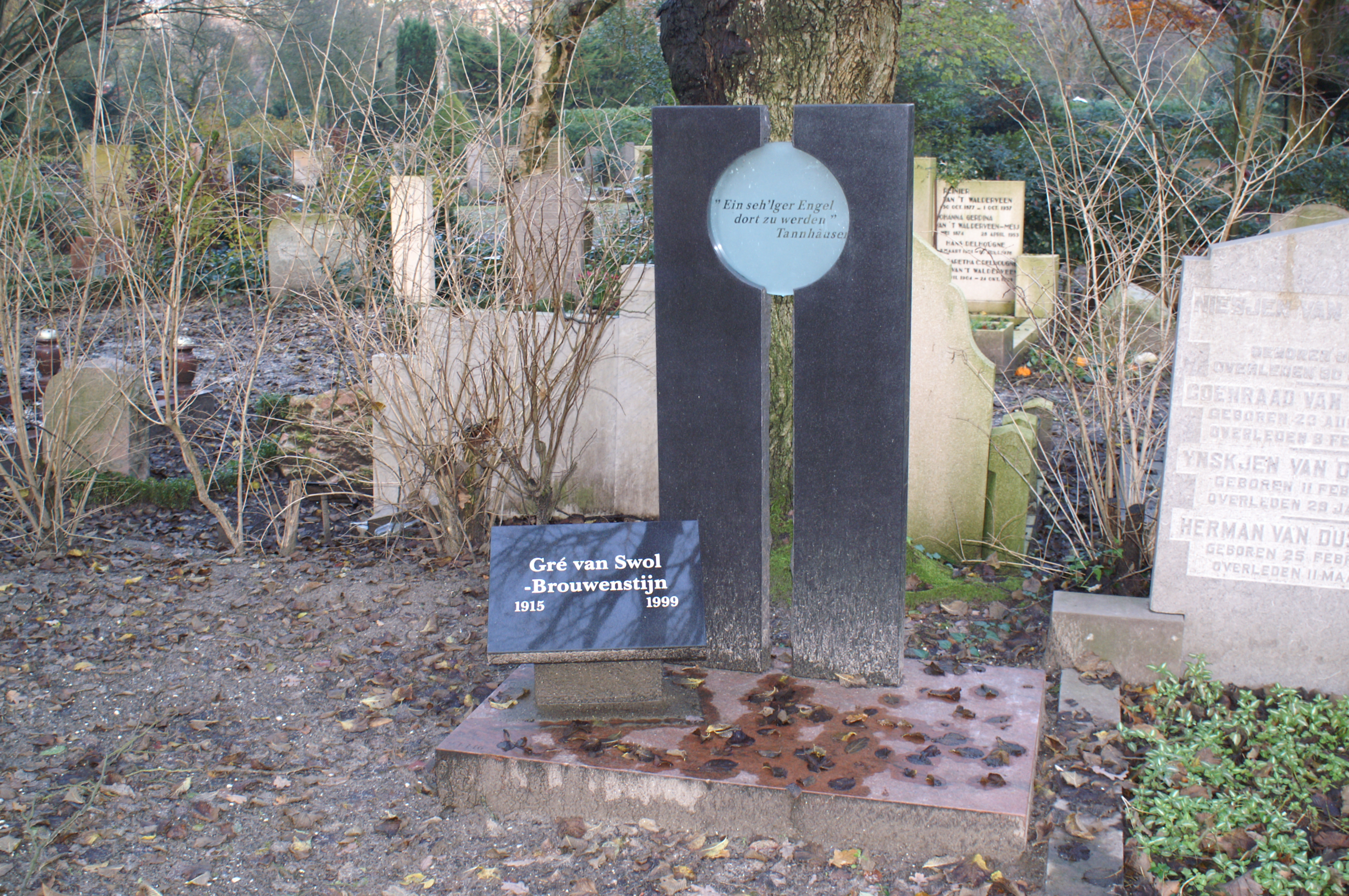 Grave of Dutch soprano Gré Brouwenstijn.